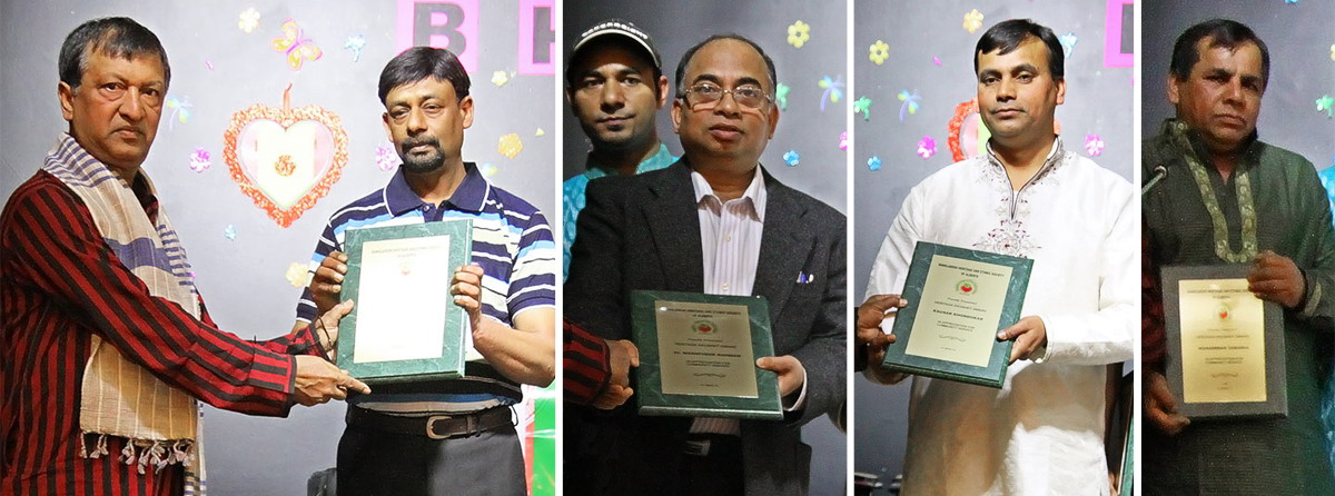 Photo Collage: "Recipients of the BHESA Ekushey Heritage Award 2015", April 25, 2015 by Andy Strohkirch